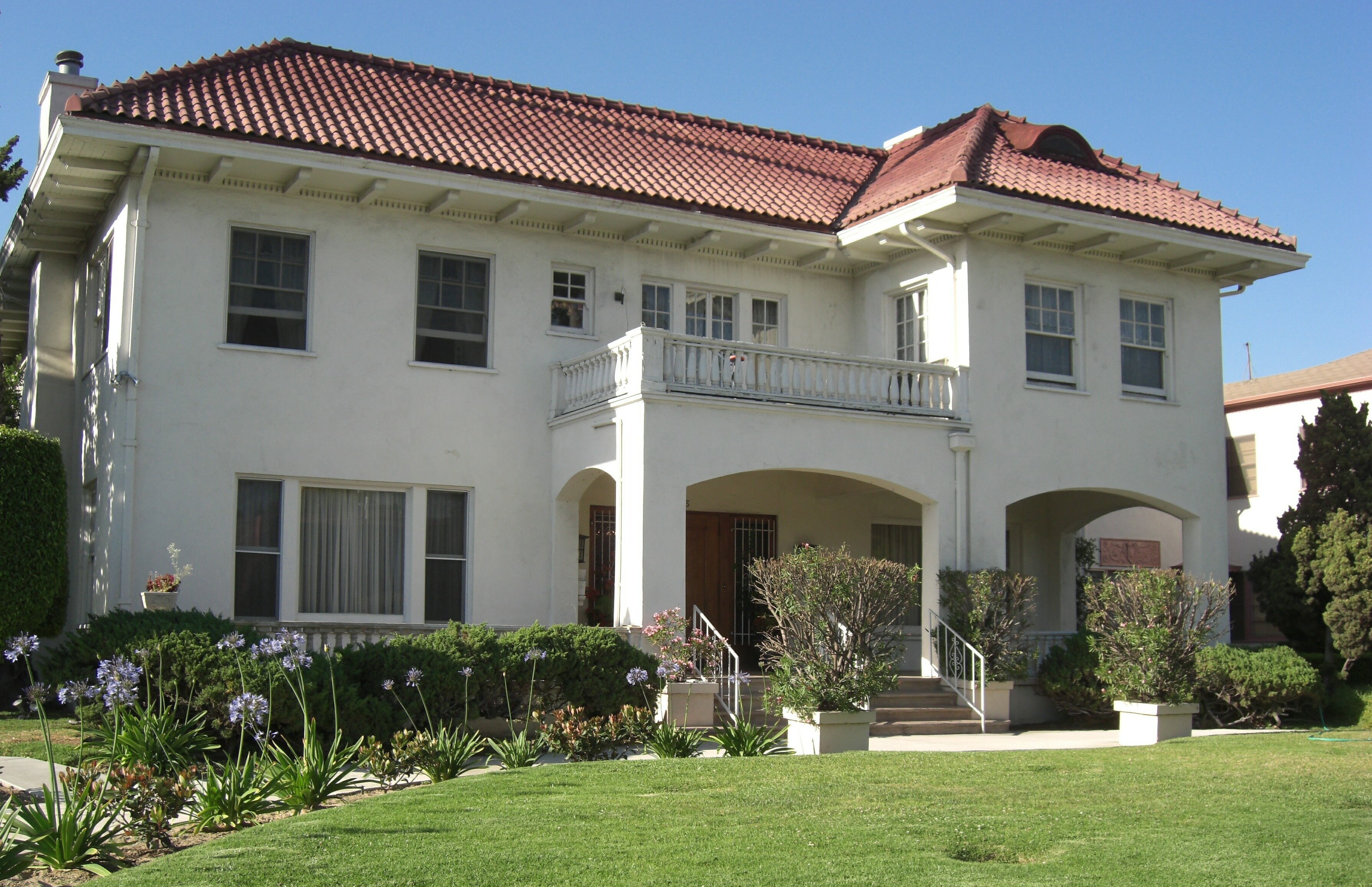 Front view of the Wilfandel Club House in Los Angeles, CA.